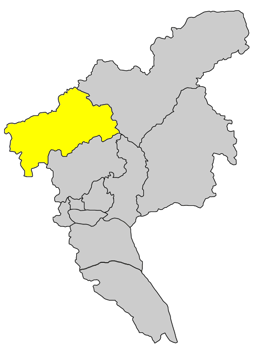 Location of Huadu District, Guangzhou